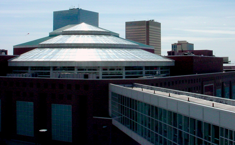 DSC02109-Anchorage